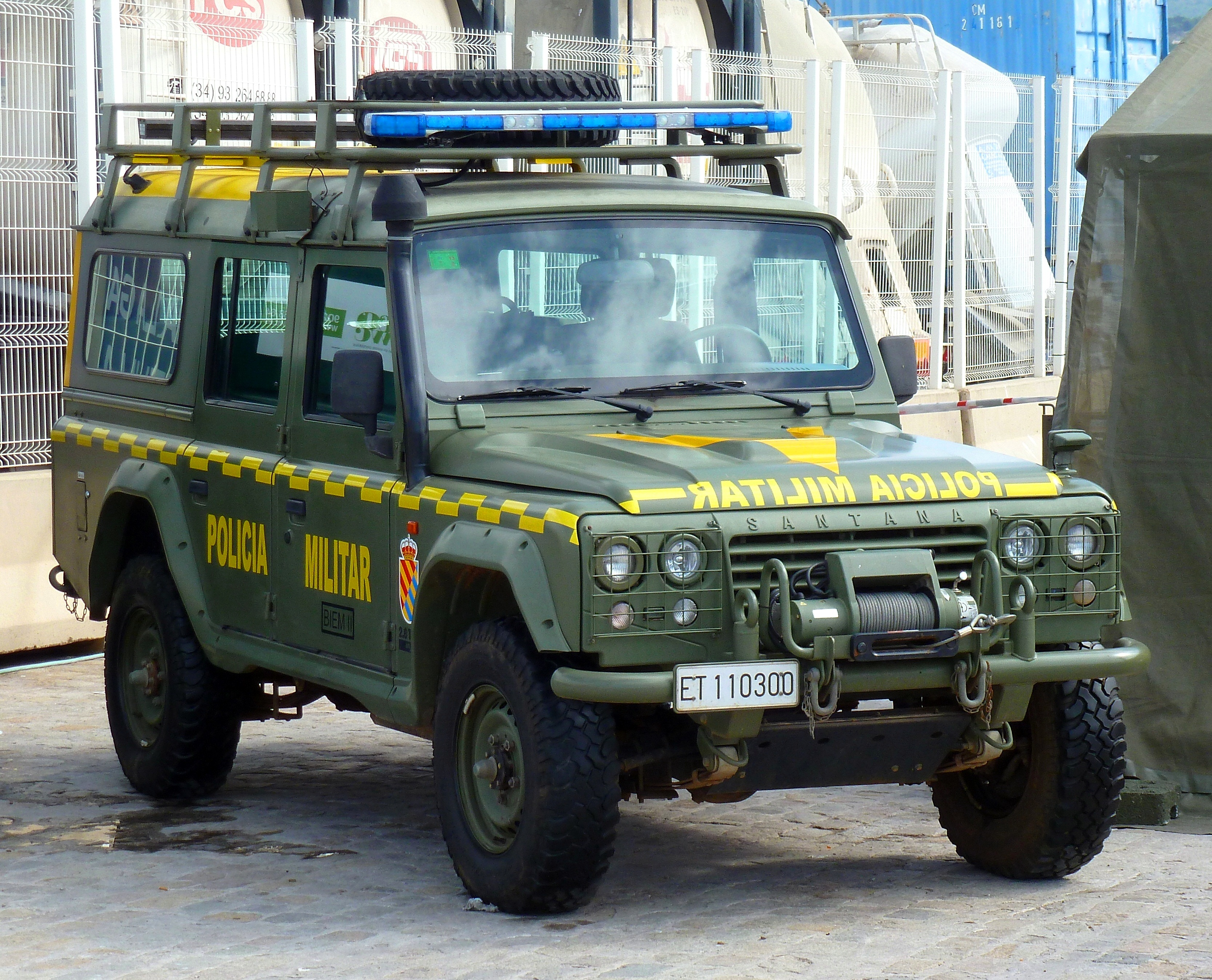 Military police Santana Aníbal of the Spanish Army.